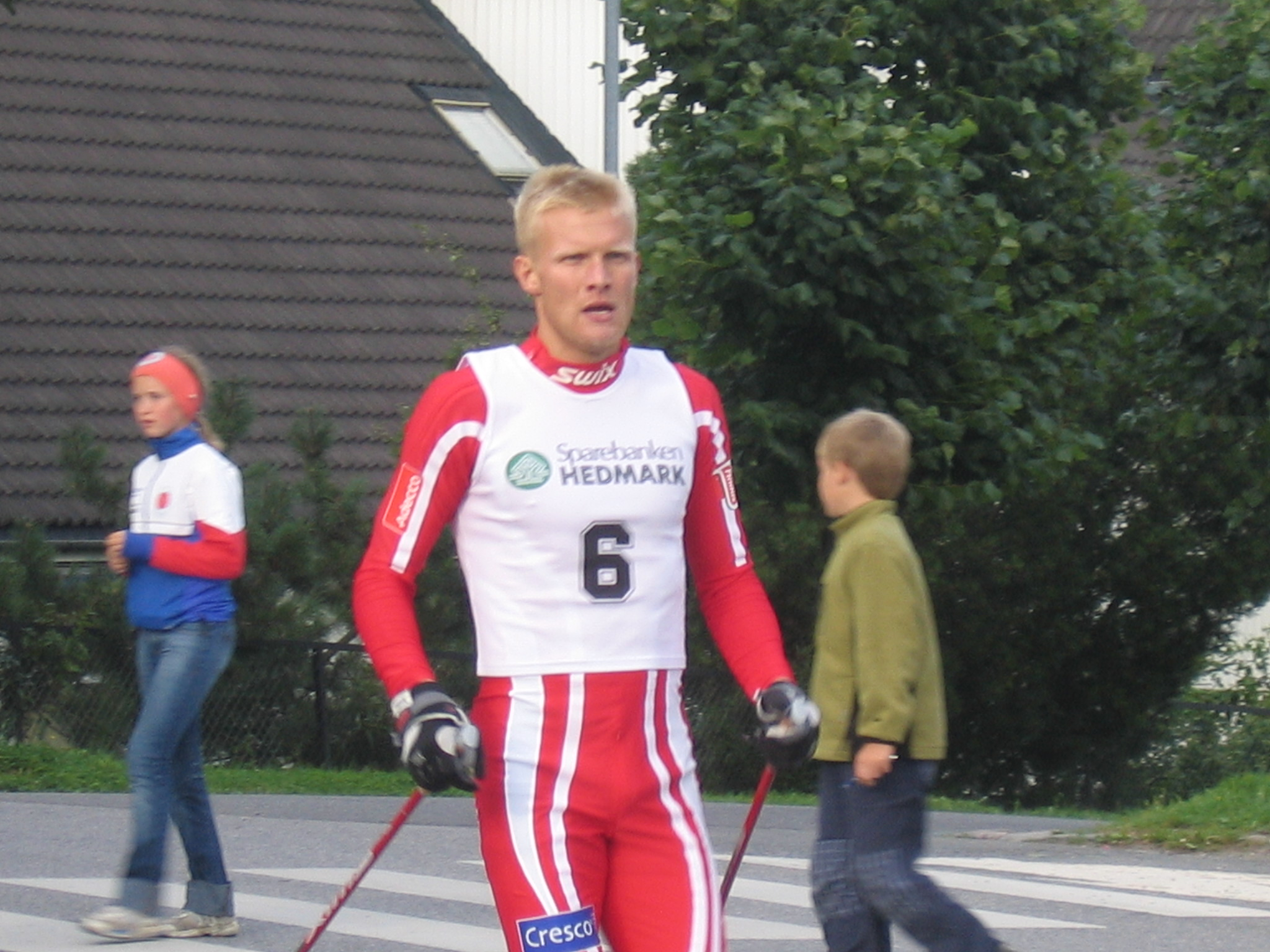 The Norwegian cross-country skier Tor Arne Hetland under Kirkebakken Grand Prix 2007 in Hamar, Norway.